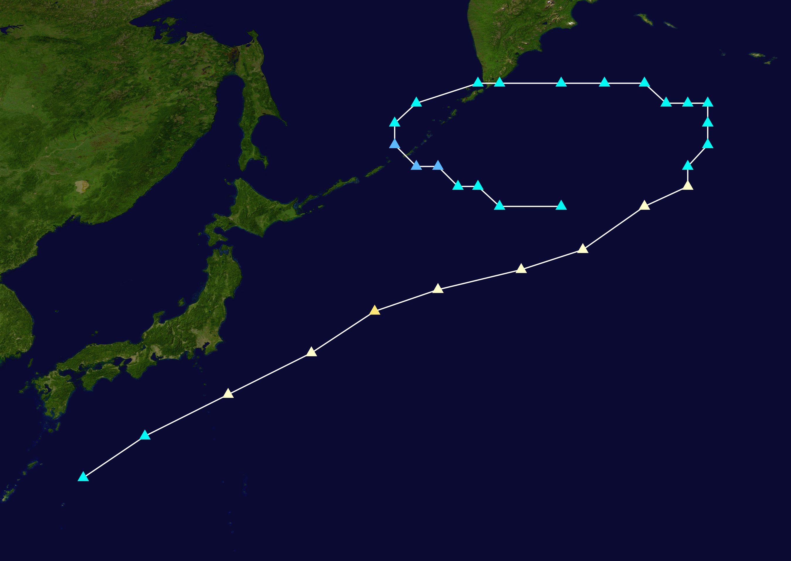 Track map of the January 2013 Northwest Pacific bomb cyclone. The points show the location of the storm at 6-hour intervals. The color represents the storm's maximum sustained wind speeds as classified in the Saffir-Simpson Hurricane Scale (see below), and the shape of the data points represent the nature of the storm, according to the legend below. Saffir–Simpson scale Tropical depression≤38 mph≤62 km/h Category 3111–129 mph178–208 km/h Tropical storm39–73 mph63–118 km/h Category 4130–156 mph209–251 km/h Category 174–95 mph119–153 km/h Category 5≥157 mph≥252 km/h Category 296–110 mph154–177 km/h Unknown Storm typeTropical cycloneSubtropical cycloneExtratropical cyclone / Remnant low / Tropical disturbance